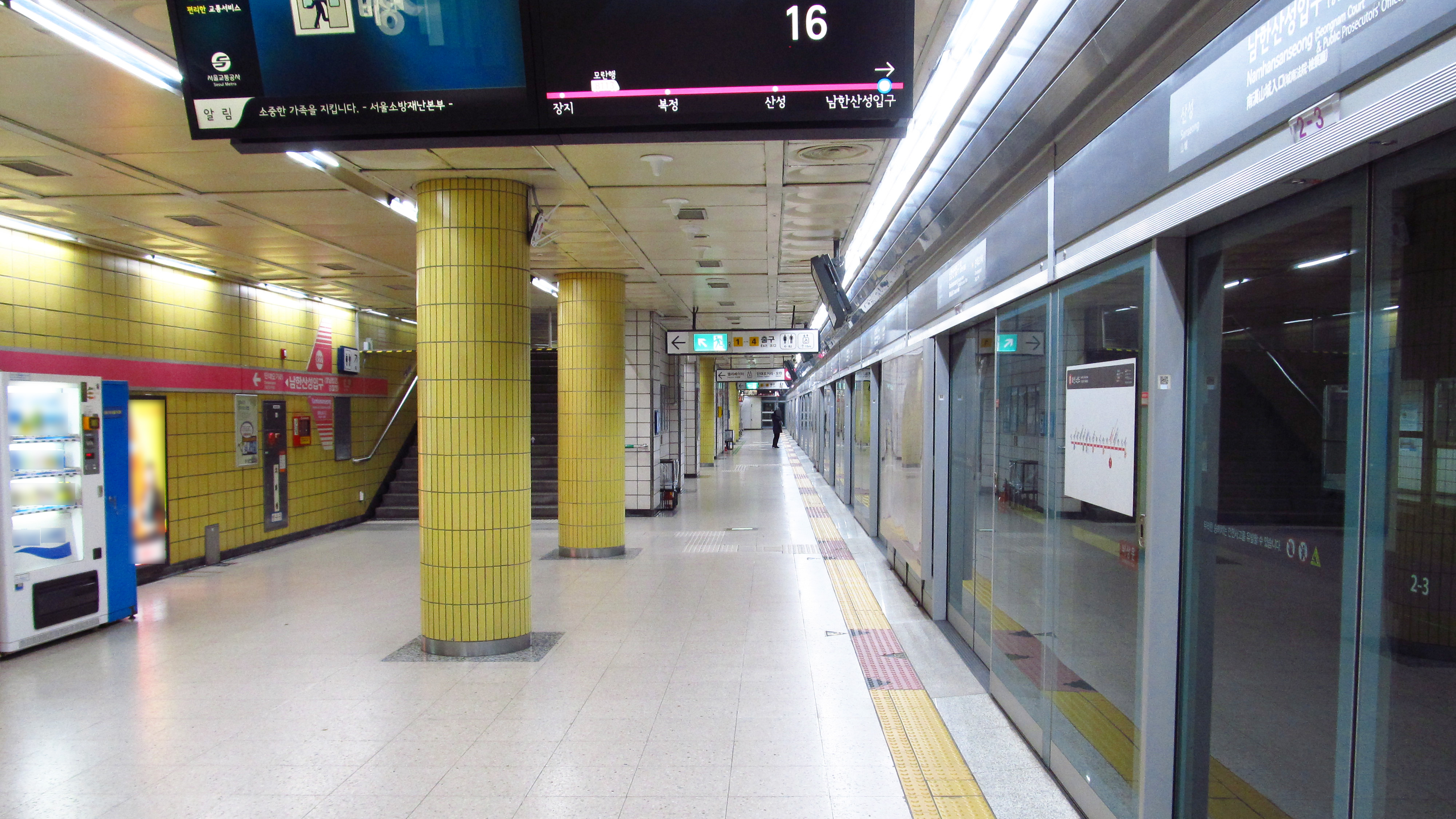 The platform at Namhansanseong Station on Seoul Subway Line 8 in Seongnam city, Gyeonggi-do(province), Republic of Korea(South Korea)